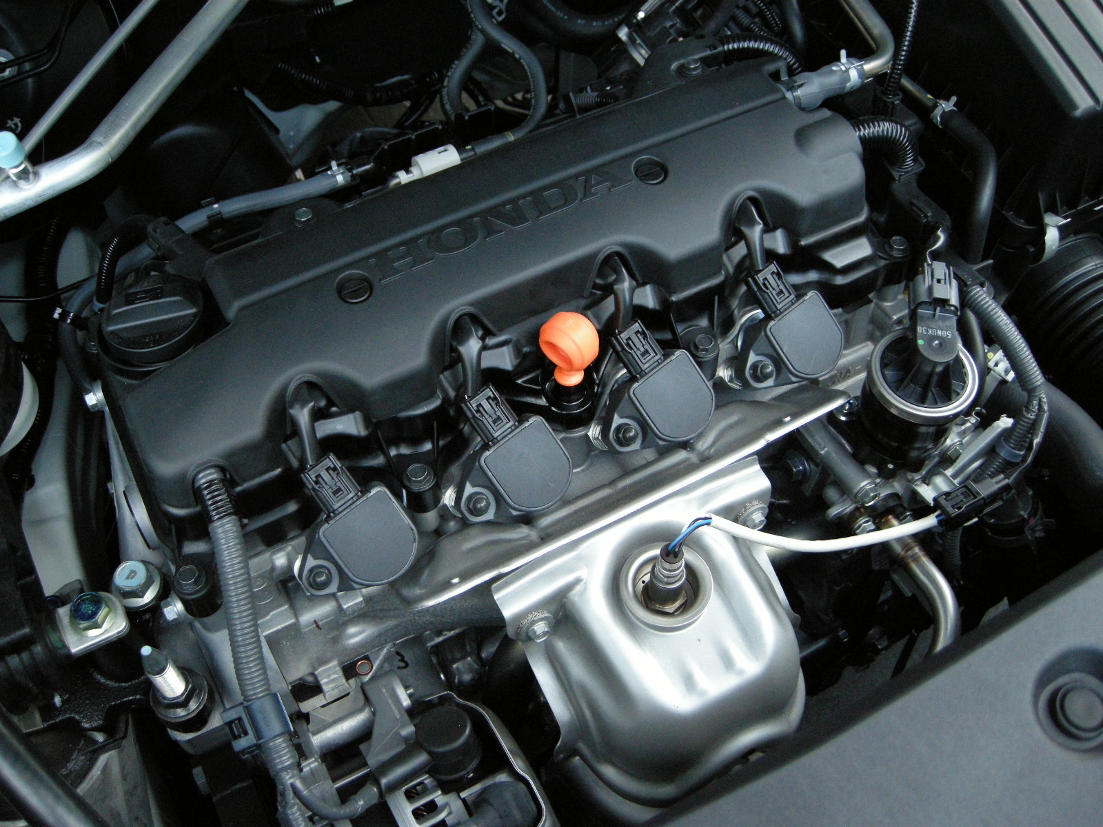 Honda R20A 2.0L SOHC i-VTEC Engine on 2007 Honda Crossroad